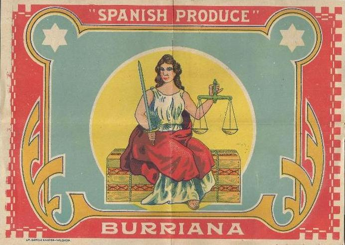 narancias